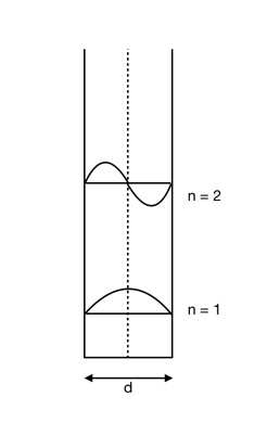 This is a figure I made. It shows the quantized energy states in an infinite well quantum well model. I have drawn in the first two energy levels in the system.